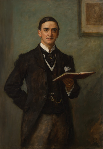 Depicted person: John Hare – British actor